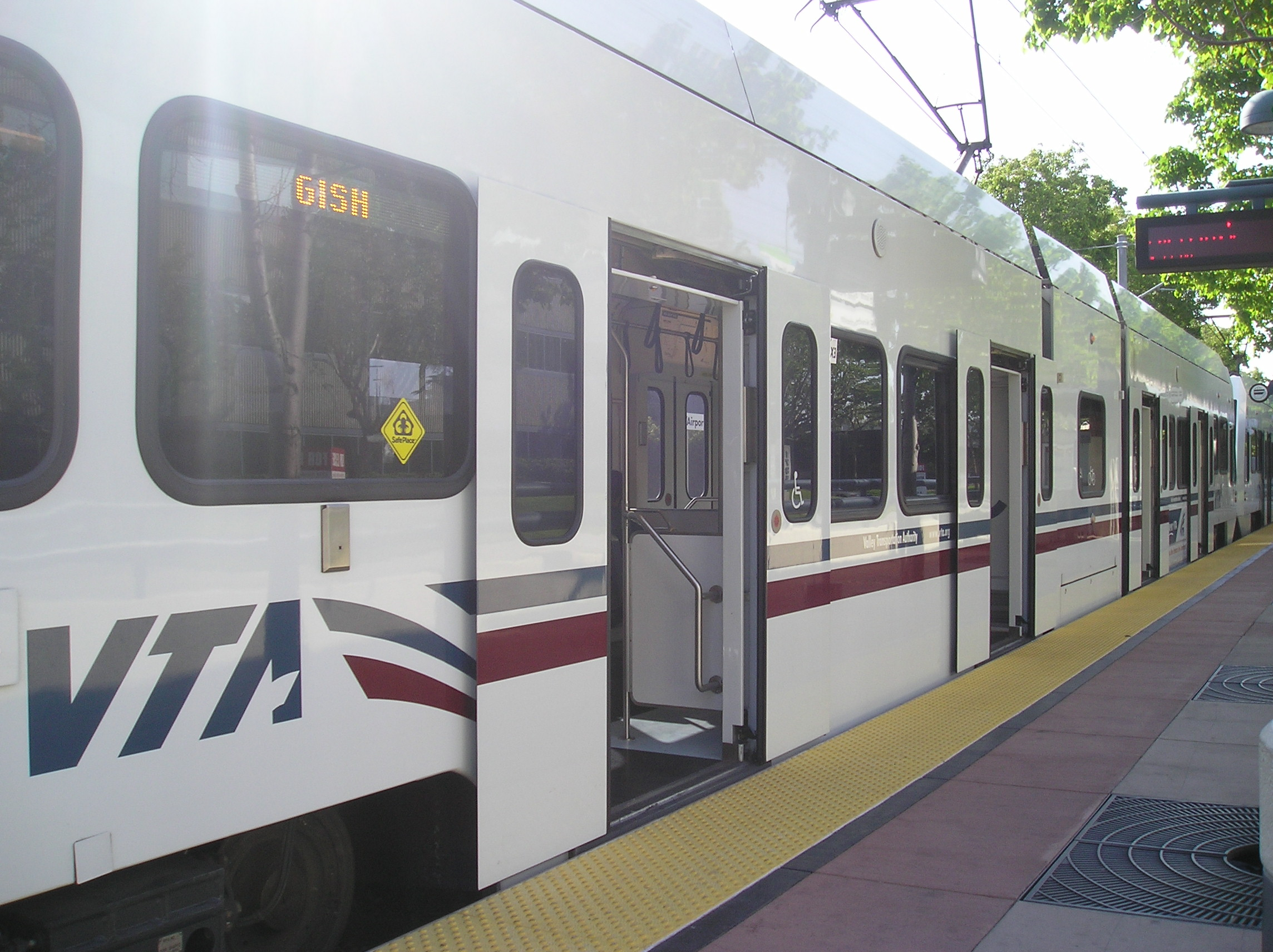 VTA Light rail, Mountain View — Gish (Mountain View — Winchester line)